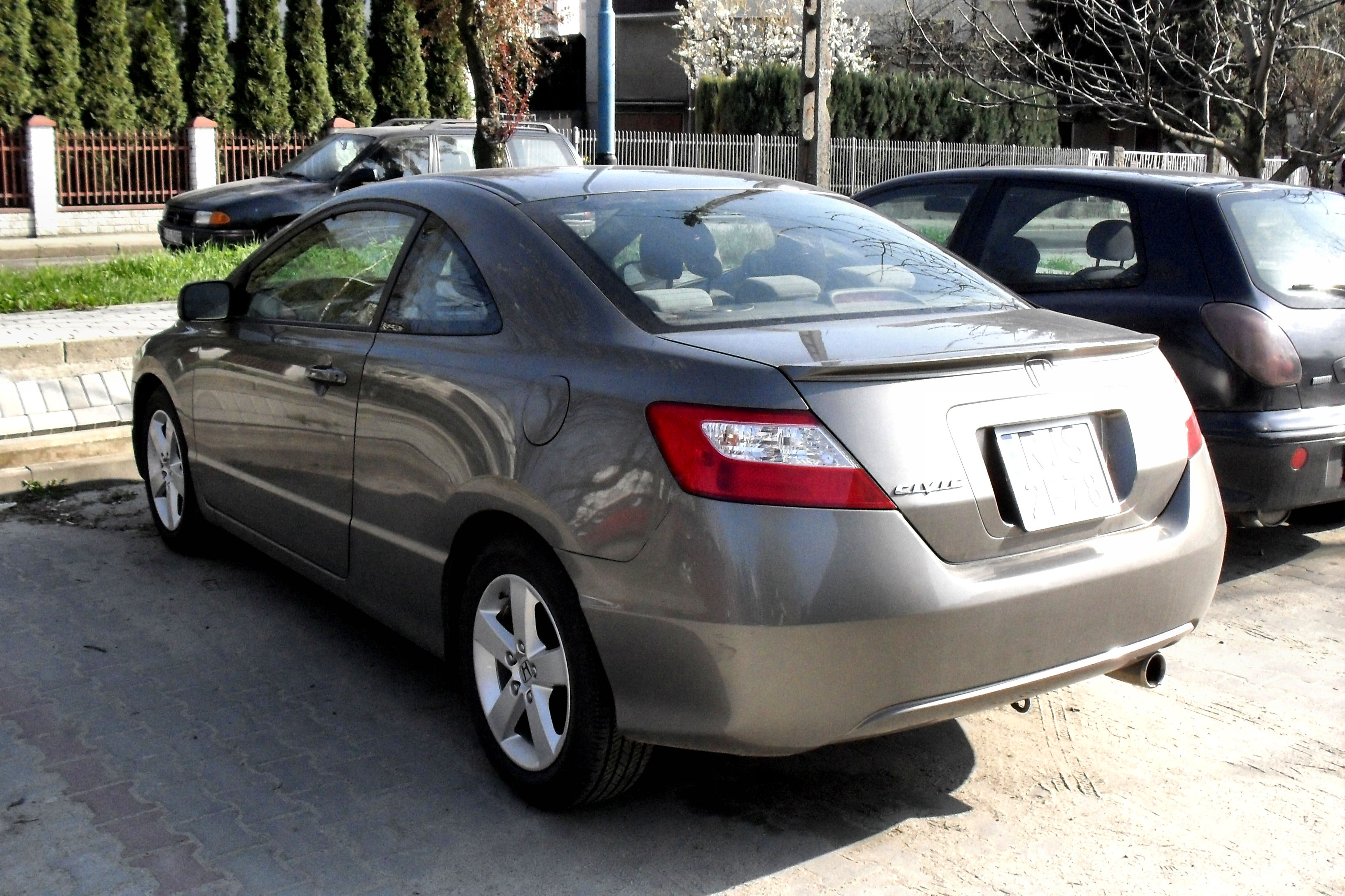 Honda Civic Coupe, seen in Jasło, Poland.